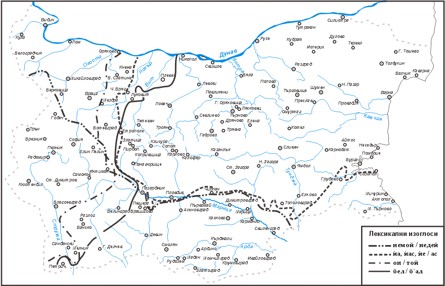 Map showing lexical isoglosses of Bulgarian speech.